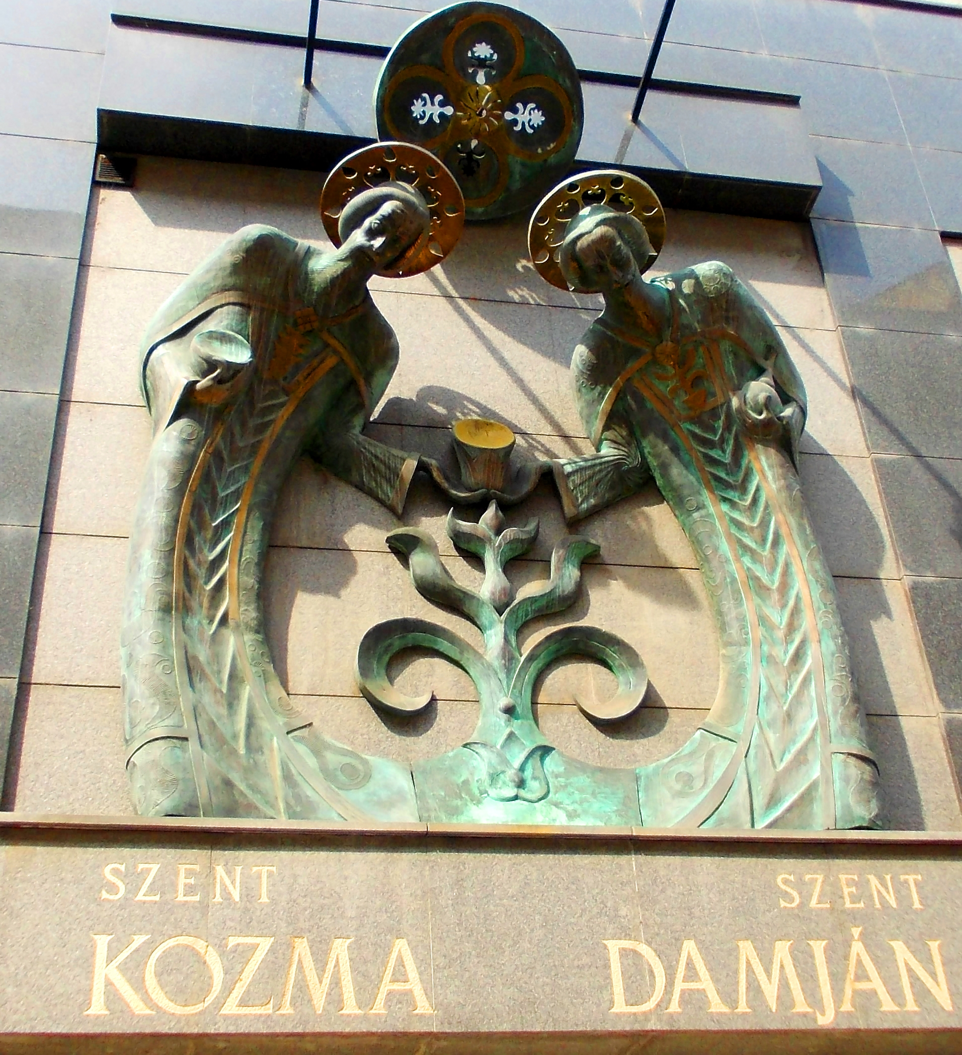 Szent Kozma és Damján Commemorative Plaque in Budapest, district V, Hercegprímás utca.